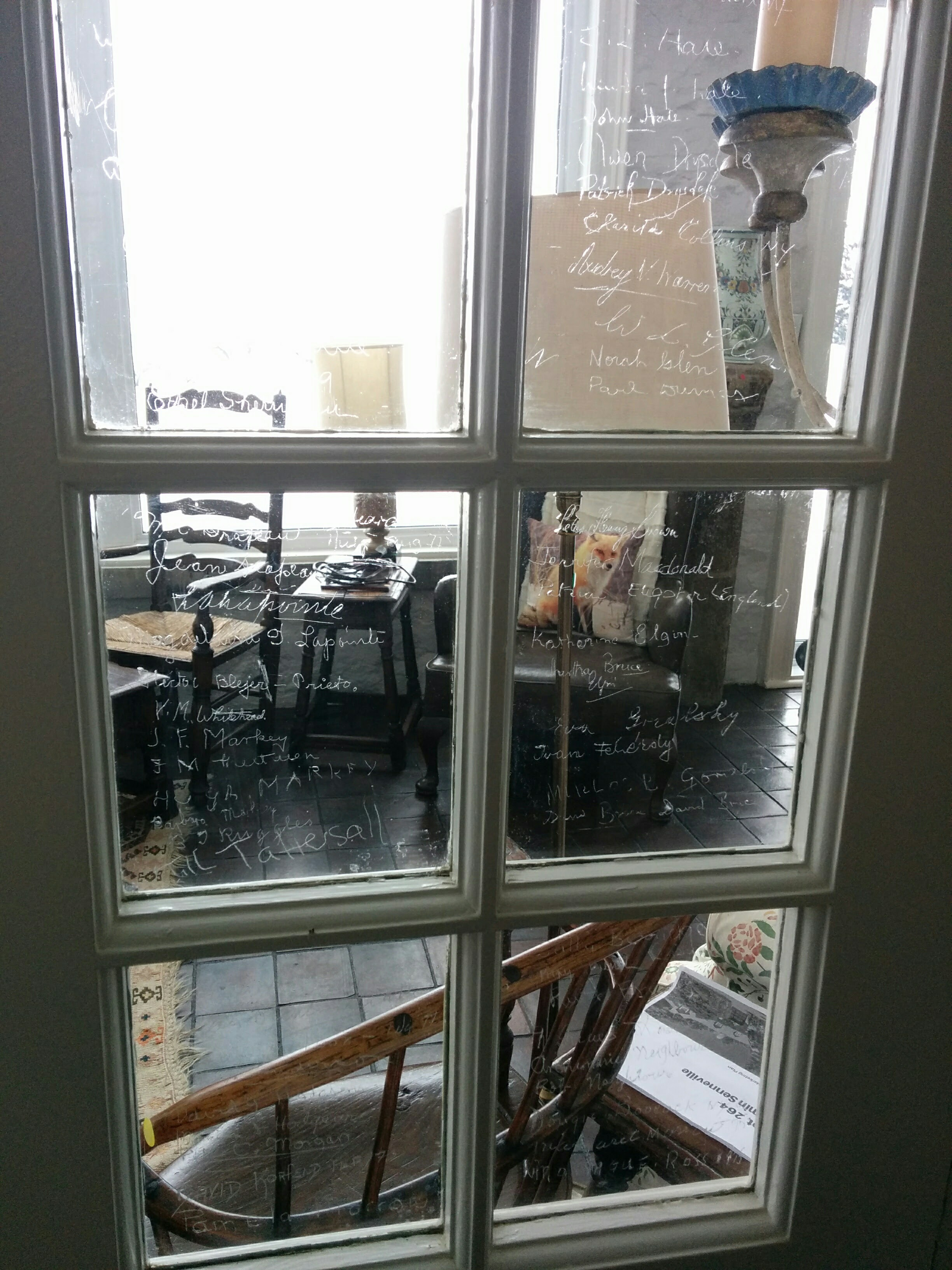 View of the French door window panes signed with a diamond-tipped pen.